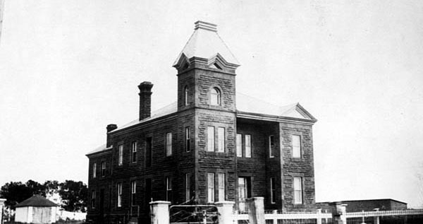 Roman Catholic Rectory, in Pokemouche.